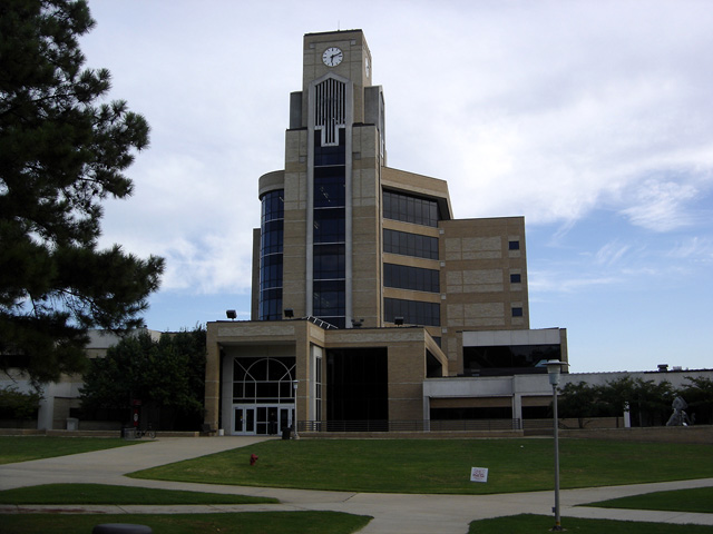 La bildo estas kopiita de en. La originala priskribo estas: Arkansas State University Dean B. Ellis Library. Image was from the Dean B. Ellis Library website. I took this current image and uploaded it in its place, and allow its free use. Photograph by User:Zereshk